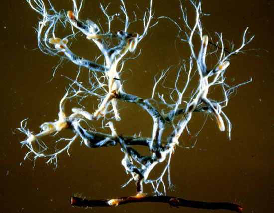 Douglas-fir Pseudotsuga menziesii subsp. menziesii root with Cortinarius sp. ectomycorrhizae. Corvallis, Oregon.